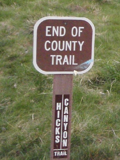 A public trail sign near Jamboree Parkway in Orange County, California. Taken with my digital camera.